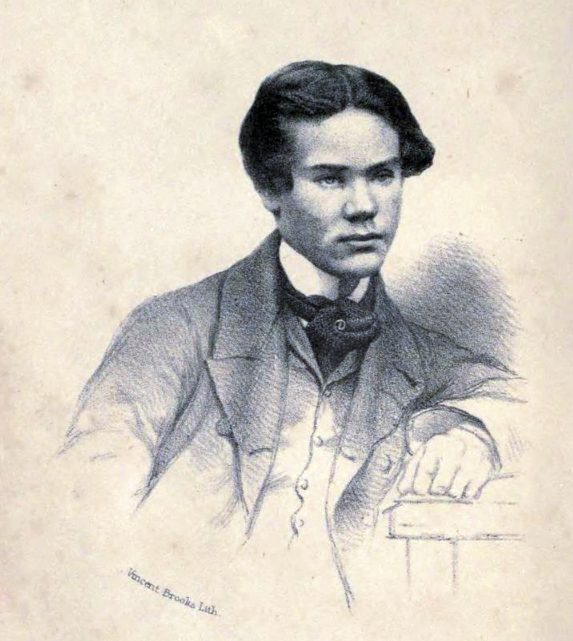 Image of Arthur Marcus Hill Cheek, taken from The martyr of Allahabad; memorials of Ensign Arthur Marcus Hill Cheek, of the Sixth Native Bengal Infantry, murdered by the Sepoys at Allahabad (1857) by R. Meek